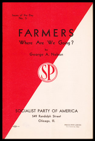 Cover art of 1934 pamphlet by George A. Wilson Copyright clear publication via Marxists Internet Archive ( Creative Commons Attribution-Share Alike 3.0 license